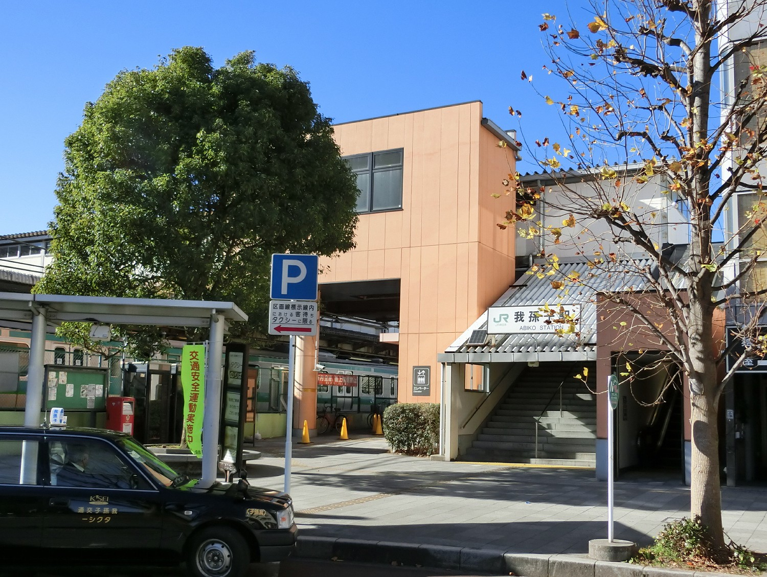 JR East Abiko Station north side